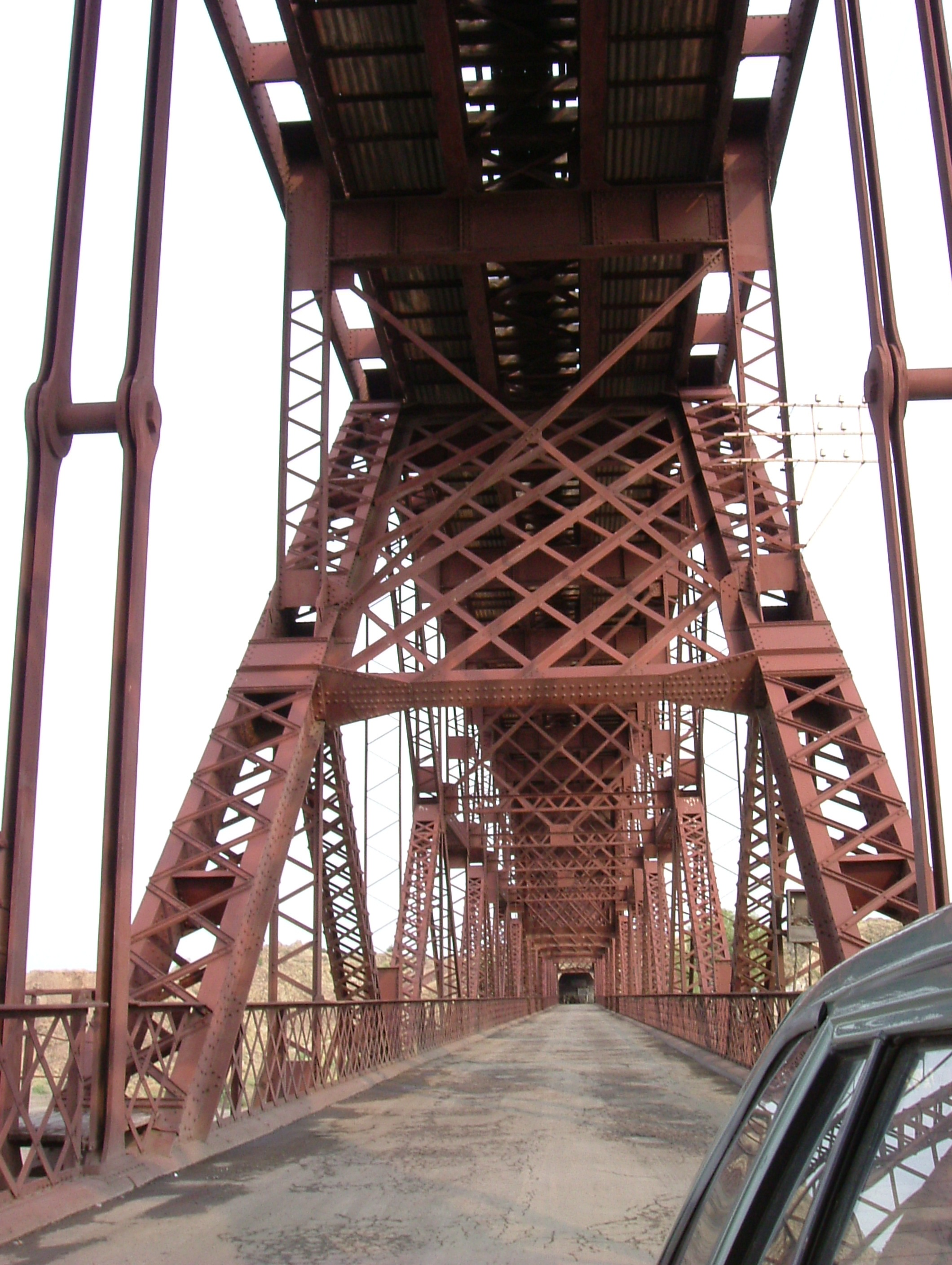 Bridge (car level), Kohat, Pakistan